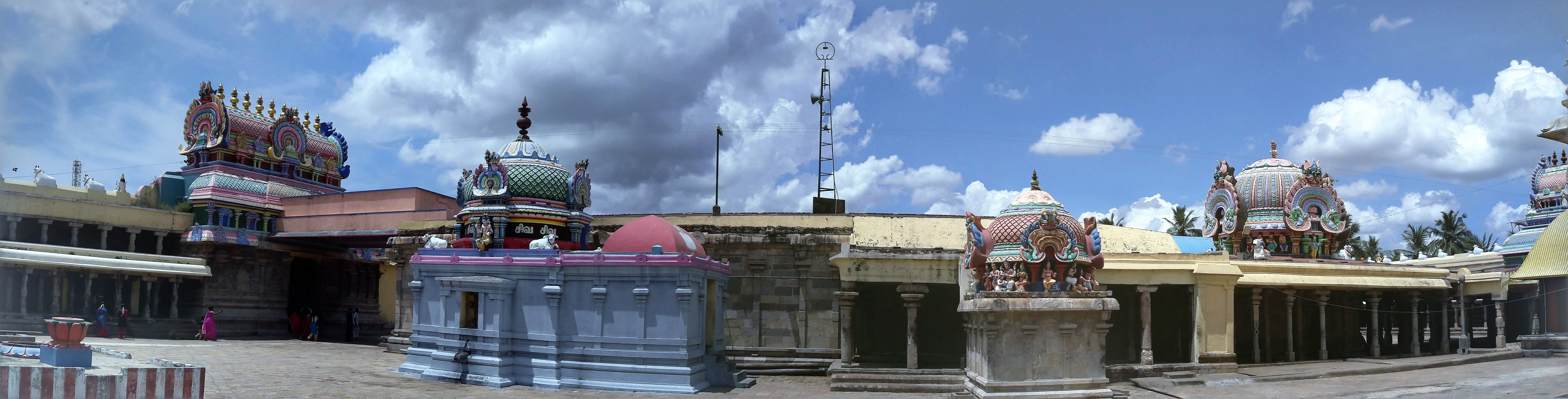 Thiruvengadu swetharanyeswarar temple